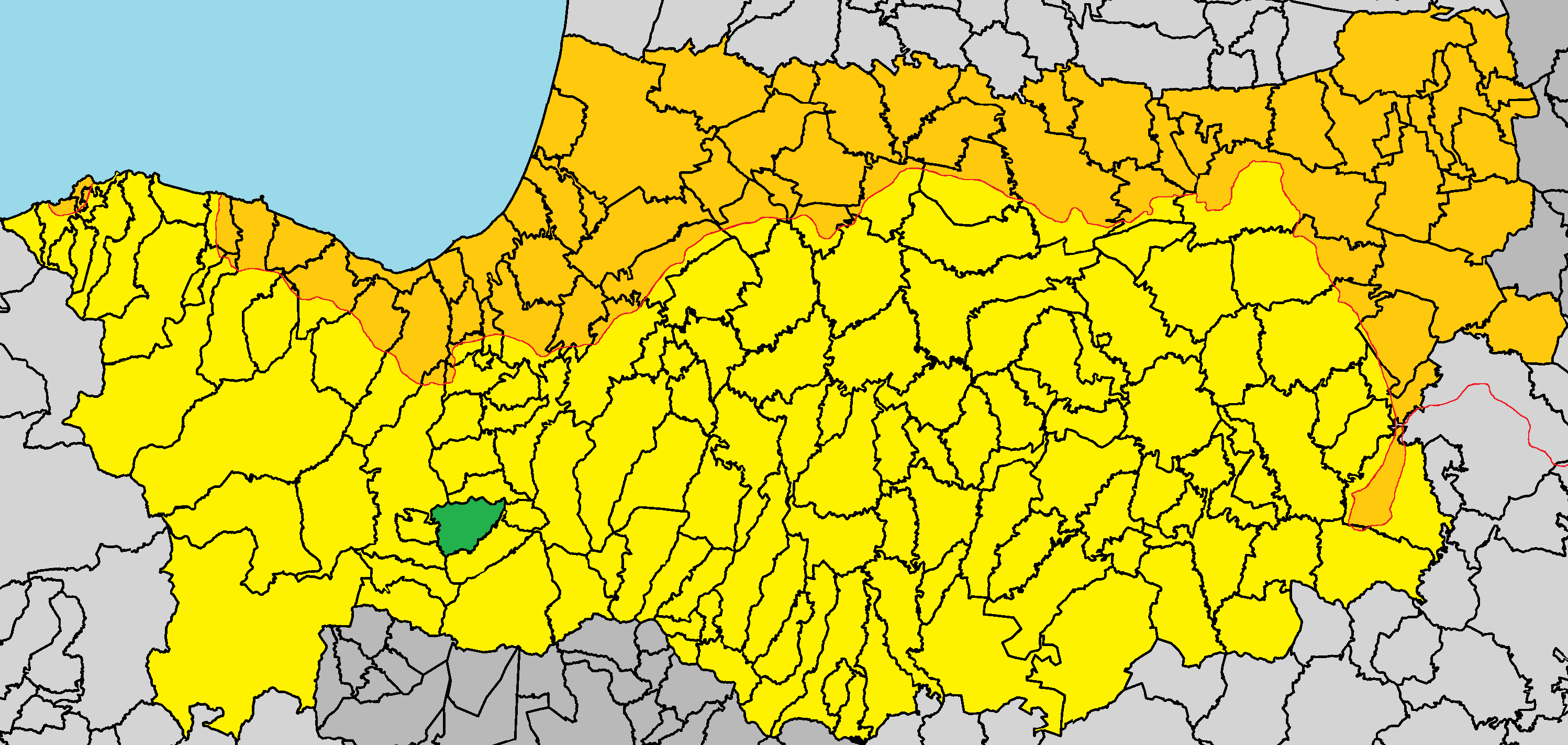 Kaliana in Nicosia District.